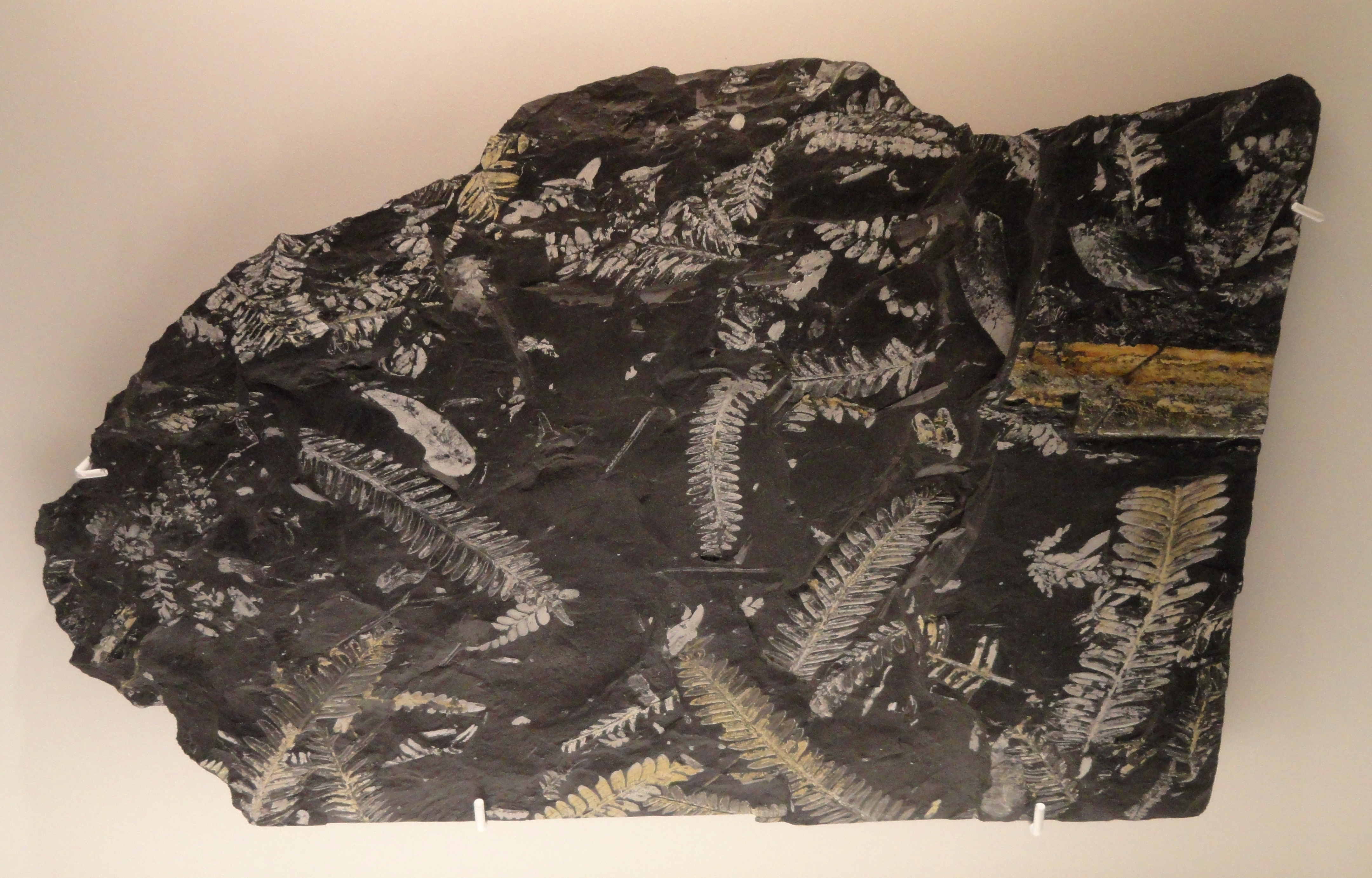 Exhibit in the Houston Museum of Natural Science, Houston, Texas, USA.